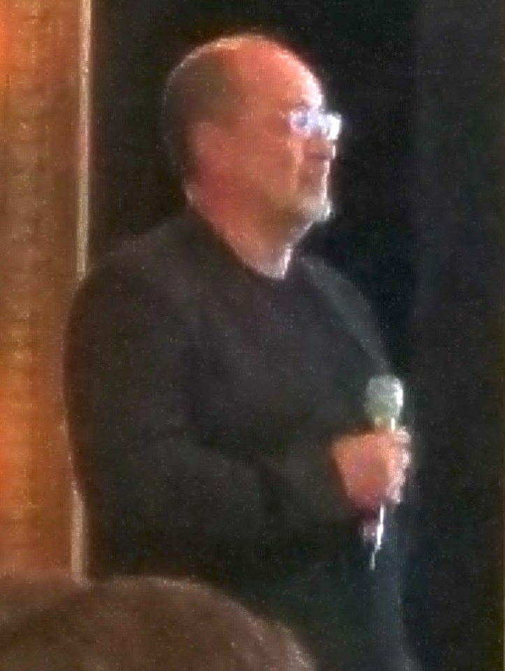 Architect Dan Meis talking about his design for the FC Cincinnati stadium. This photo was taken at an event held by FC Cincinnati at the Woodward Theater in Over-the-Rhine, Cincinnati, Ohio, USA on June 12, 2017. At the event, which was attended by local press and season ticket holders, FC Cincinnati and MEIS Architects unveiled their proposed designs for a new soccer-specific stadium that they planned to build if the club's Major League Soccer expansion bid succeeded.